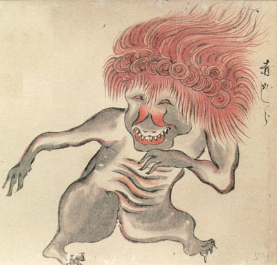 Akagashira (赤がしら, Monster of red head) from the Hyakki Yagyō Emaki (百鬼夜行絵巻)